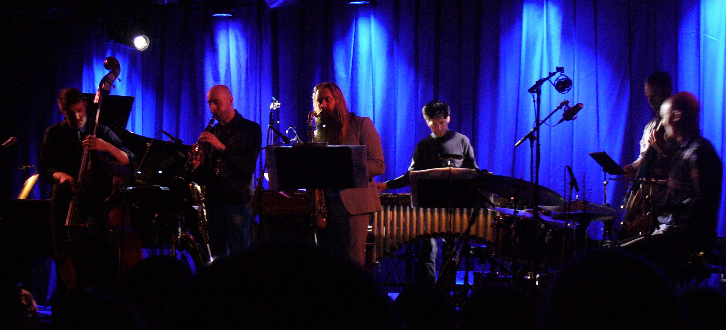 Rubicon Mats Eilertsen's commission for Vossajazz 2014.